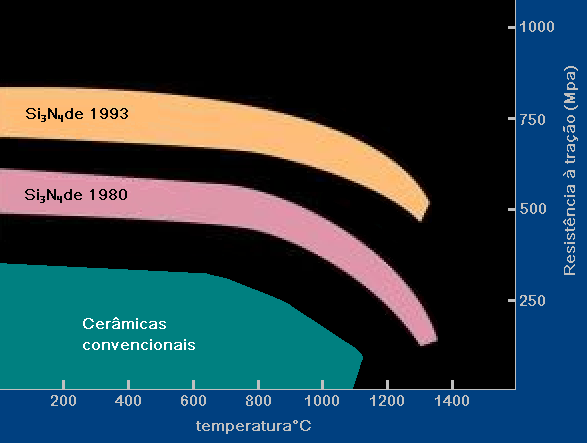 Si3N4 production